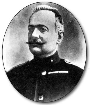 Portrait of Greek officer and minister of Northern Epirus (1914) Dimitrios Doulis, 1865-1928